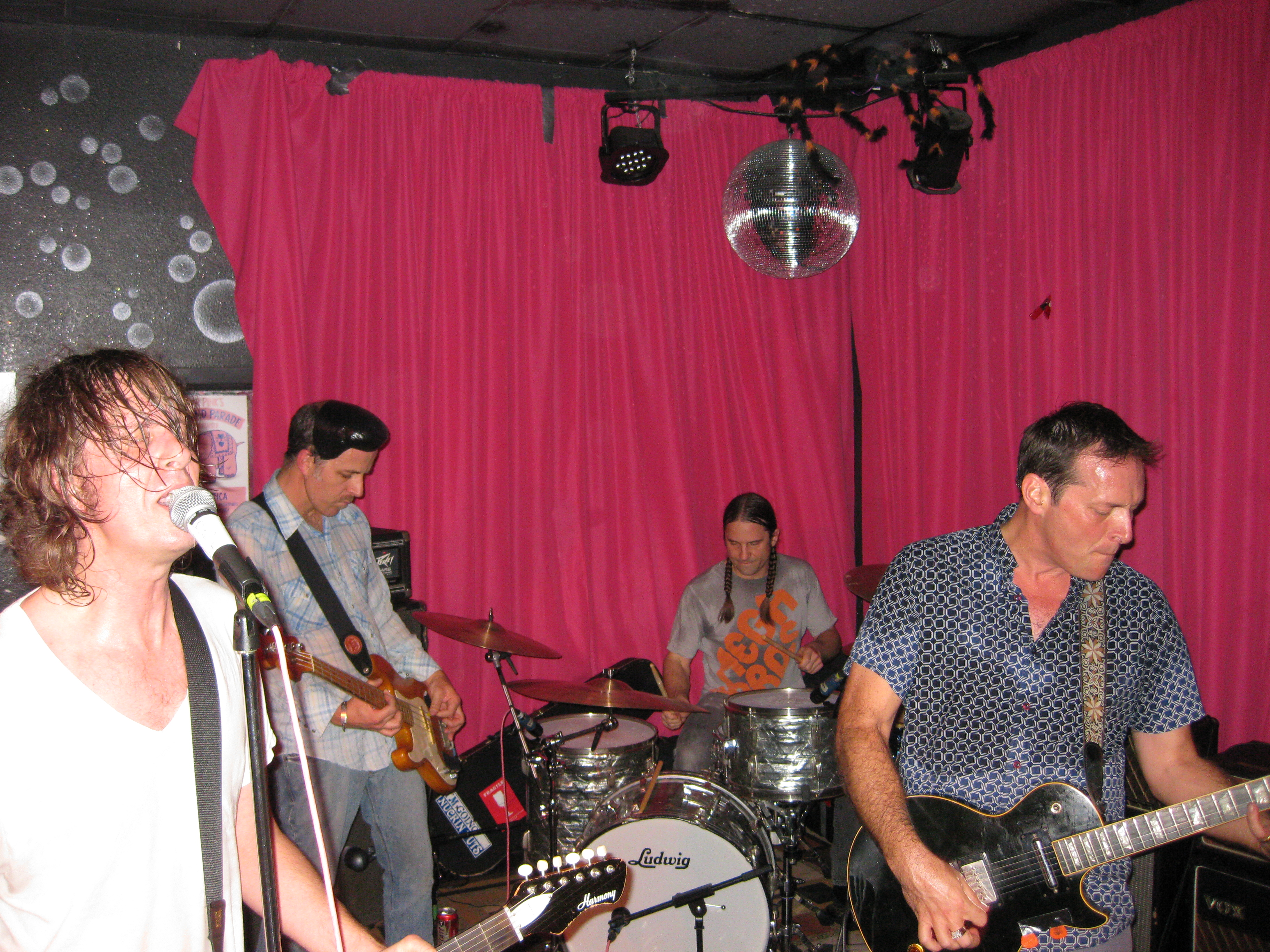 Hot Snakes performing November 4, 2011 at Bar Pink in San Diego, California. Left to right: singer/guitarist Rick Froberg, bassist Gar Wood, drummer Jason Kourkounis, and guitarist John Reis.